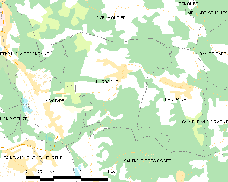 Map of French municipality Hurbache